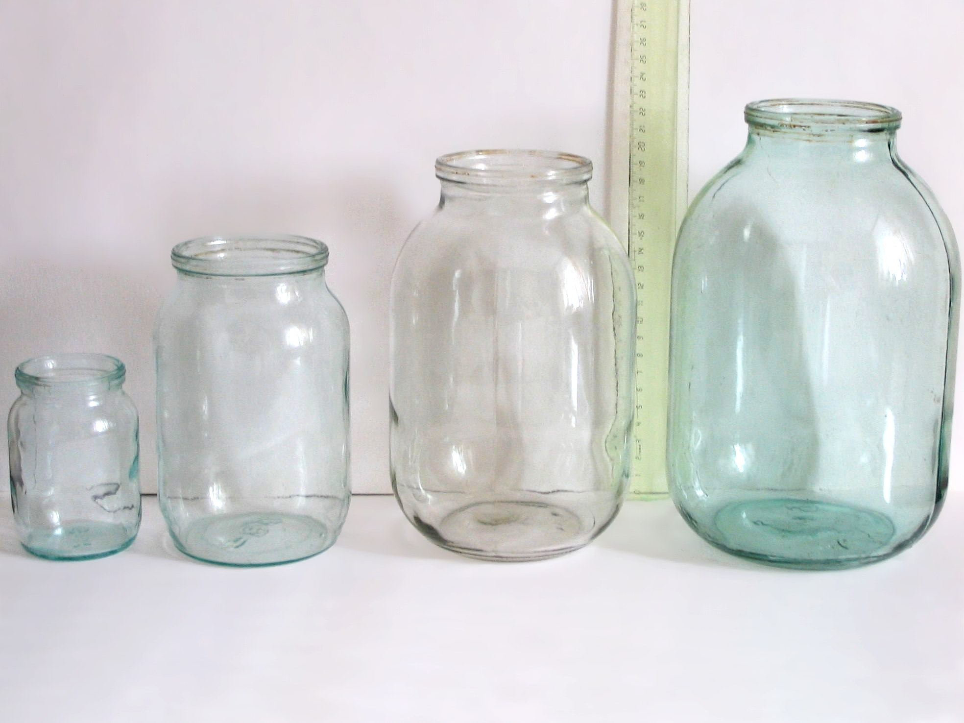 Soviet jars of different volume: leftmost 250 ml; 1 liter; 2 liter; 3 liter (rightmost) Ruler scale in cm